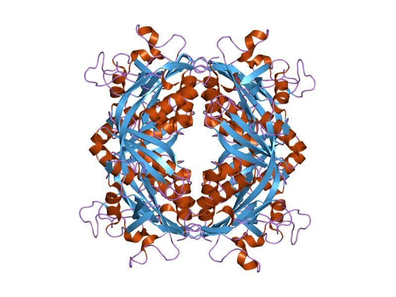 Cartoon representation of the molecular structure of protein registered with 1m5s code.